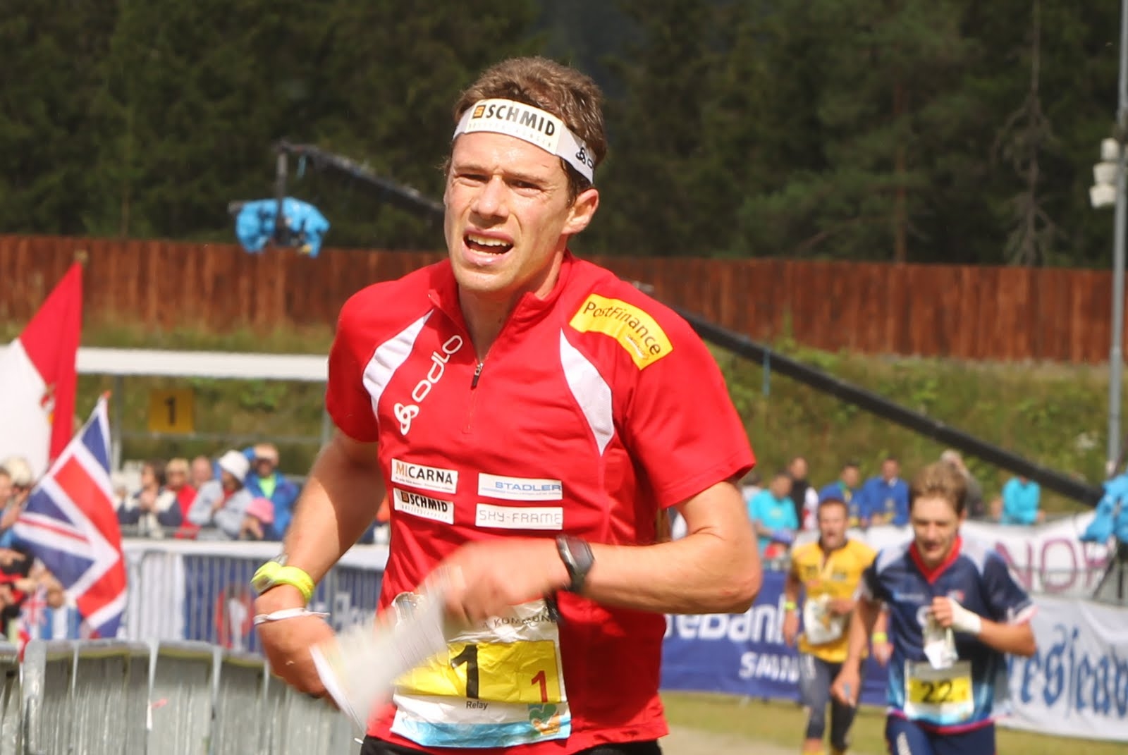 Daniel Hubmann at World Orienteering Championships 2010 in Trondheim, Norway